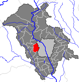 This map shows the area of the Gemeinde (municipality) Thal in the Bezirk (district) Graz-Umgebung, Styria, Austria.